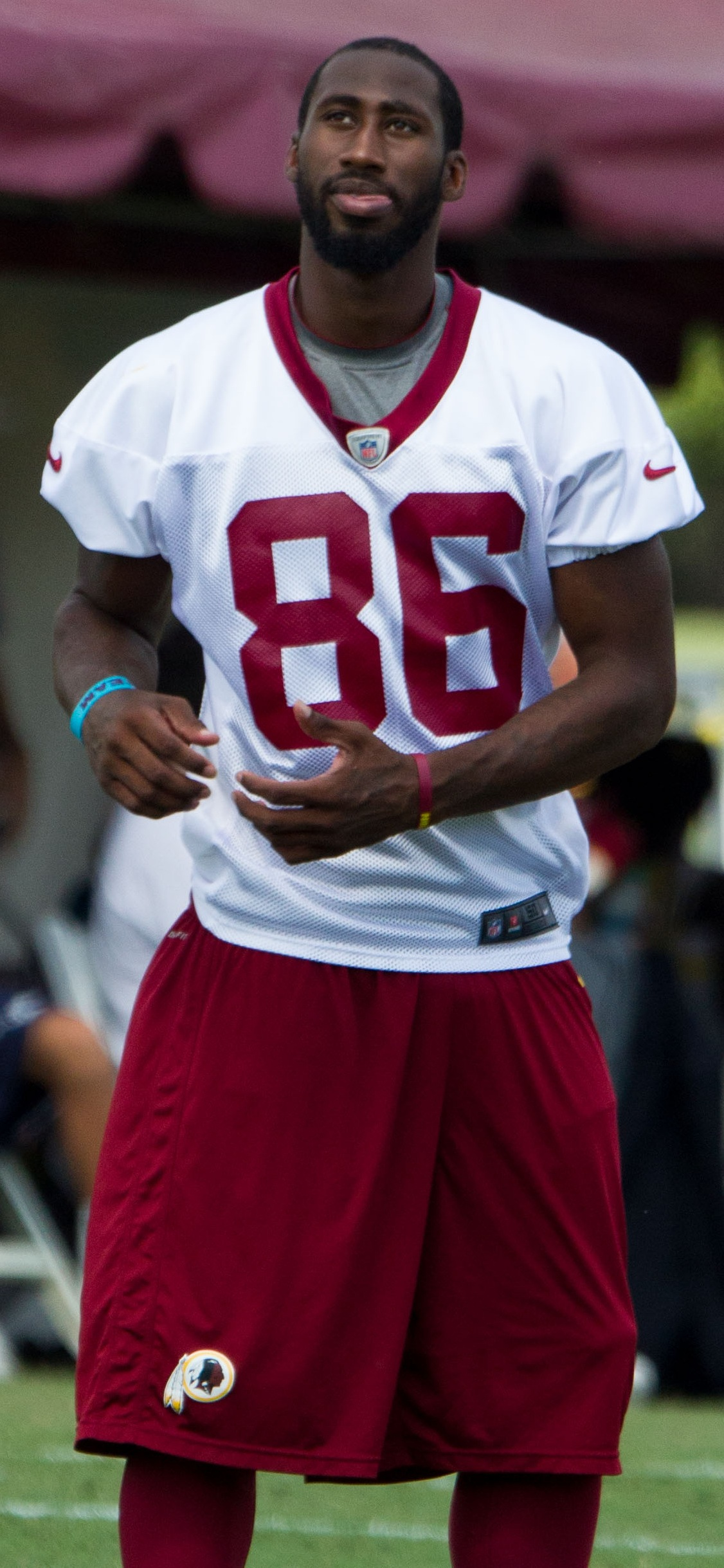 Lance Lewis at Washington Redskins Training Camp August 13, 2012